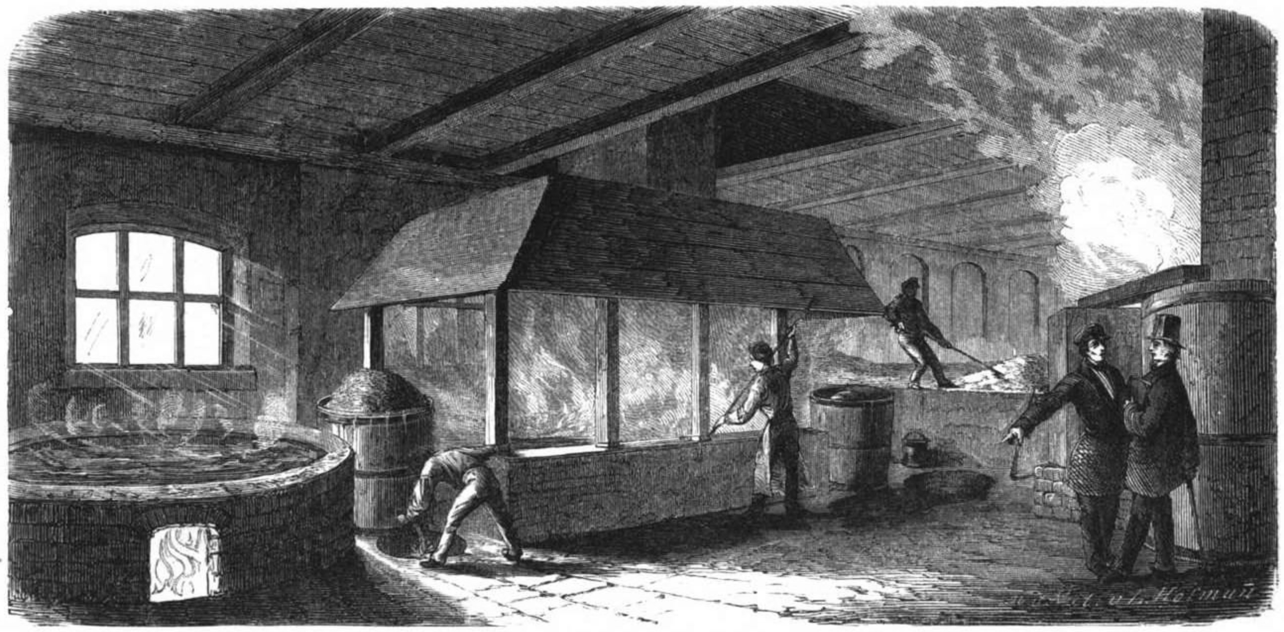 caption: "Die Saline von Fikentscher in Zwickau."